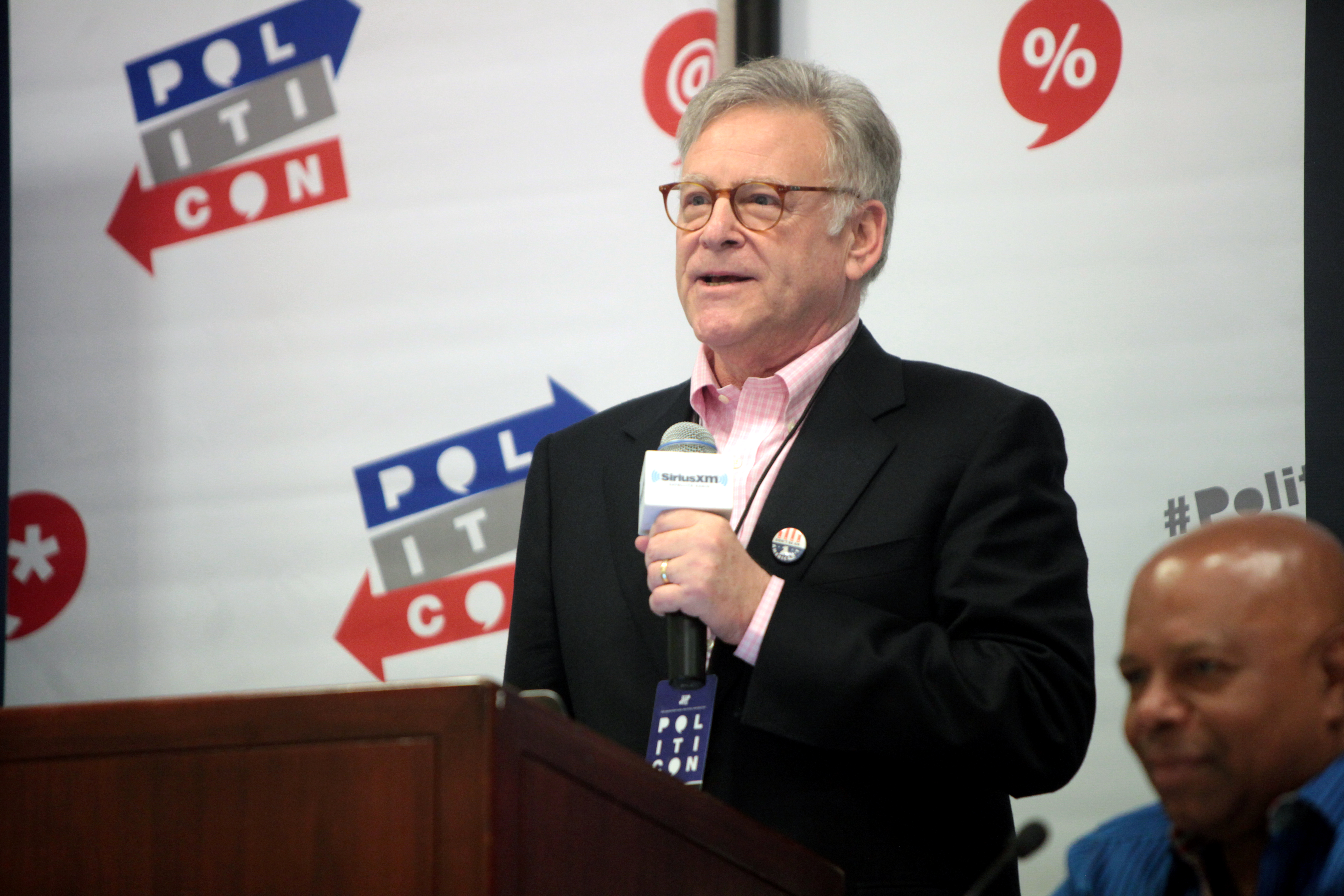 Rick Ungar speaking at the 2016 Politicon at the Pasadena Convention Center in Pasadena, California.